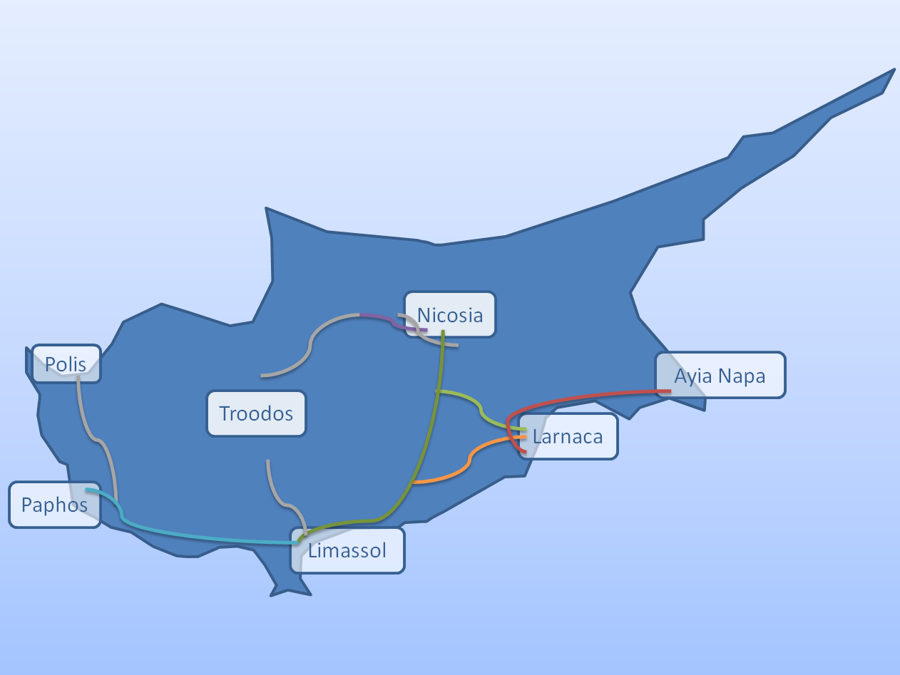 Digram of Cypriot Motorways. Figure NOT drawn to scale. Lines in Grey are Motorways under construction or under planing. Created by me, TomasNY 00:09, 17 August 2007 (UTC)